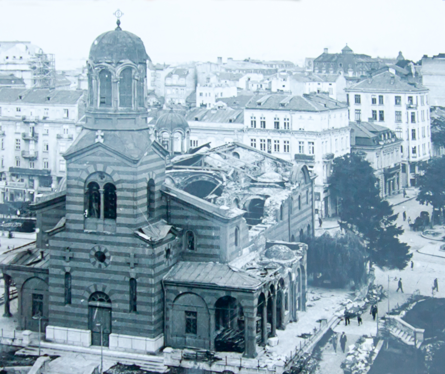 'St. Kral/ Nedelya' Cathedral in Sofia after the Communist assault, April 1925.